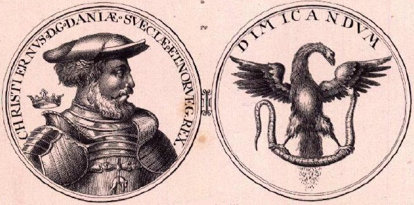 Medal of Christian II of Denmark, Norway and Sweden, presumeably made by a foreign ally, possibly Frederick III, Elector Palatine. (p.142-43)